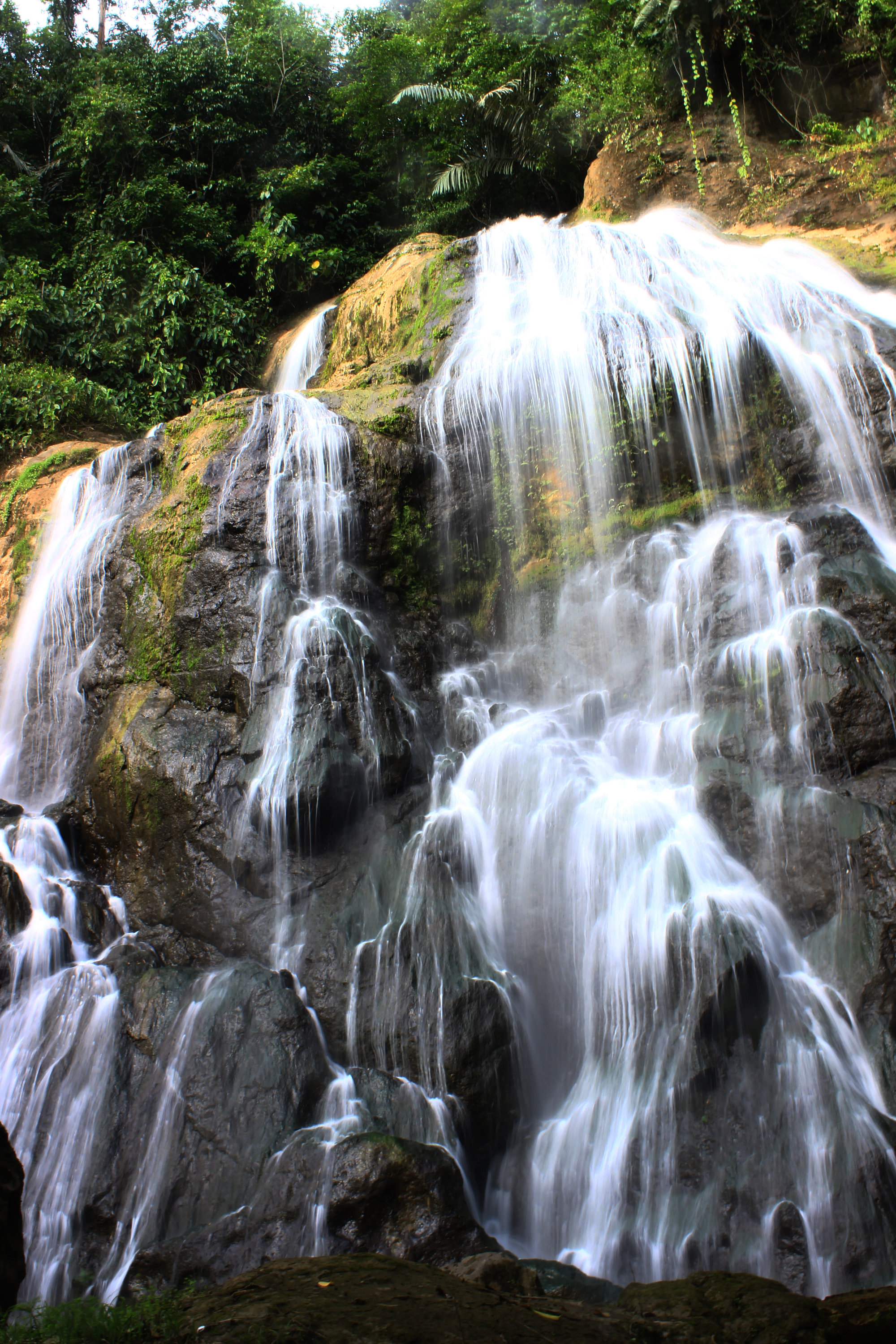 Waterfall in Kalait village, South East Minahasa, North Sulawesi